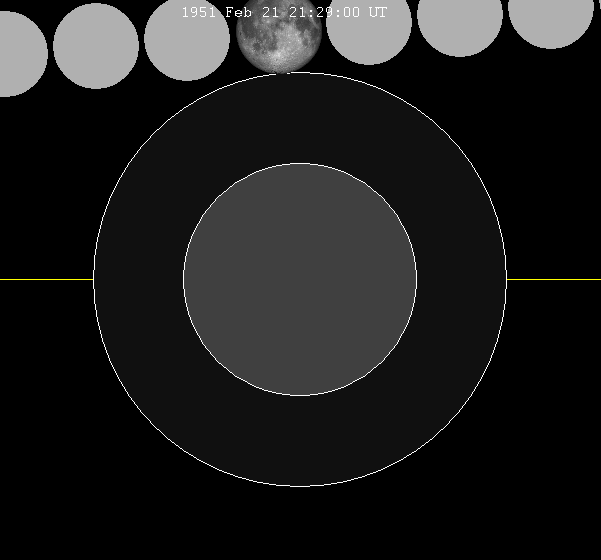 February 1951 lunar eclipse chart of moon's path through the earth's shadow. thumb